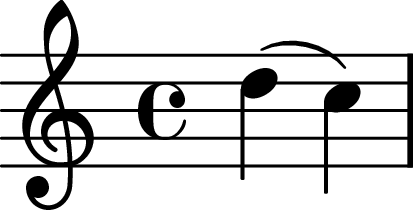 restores common practice interpretation